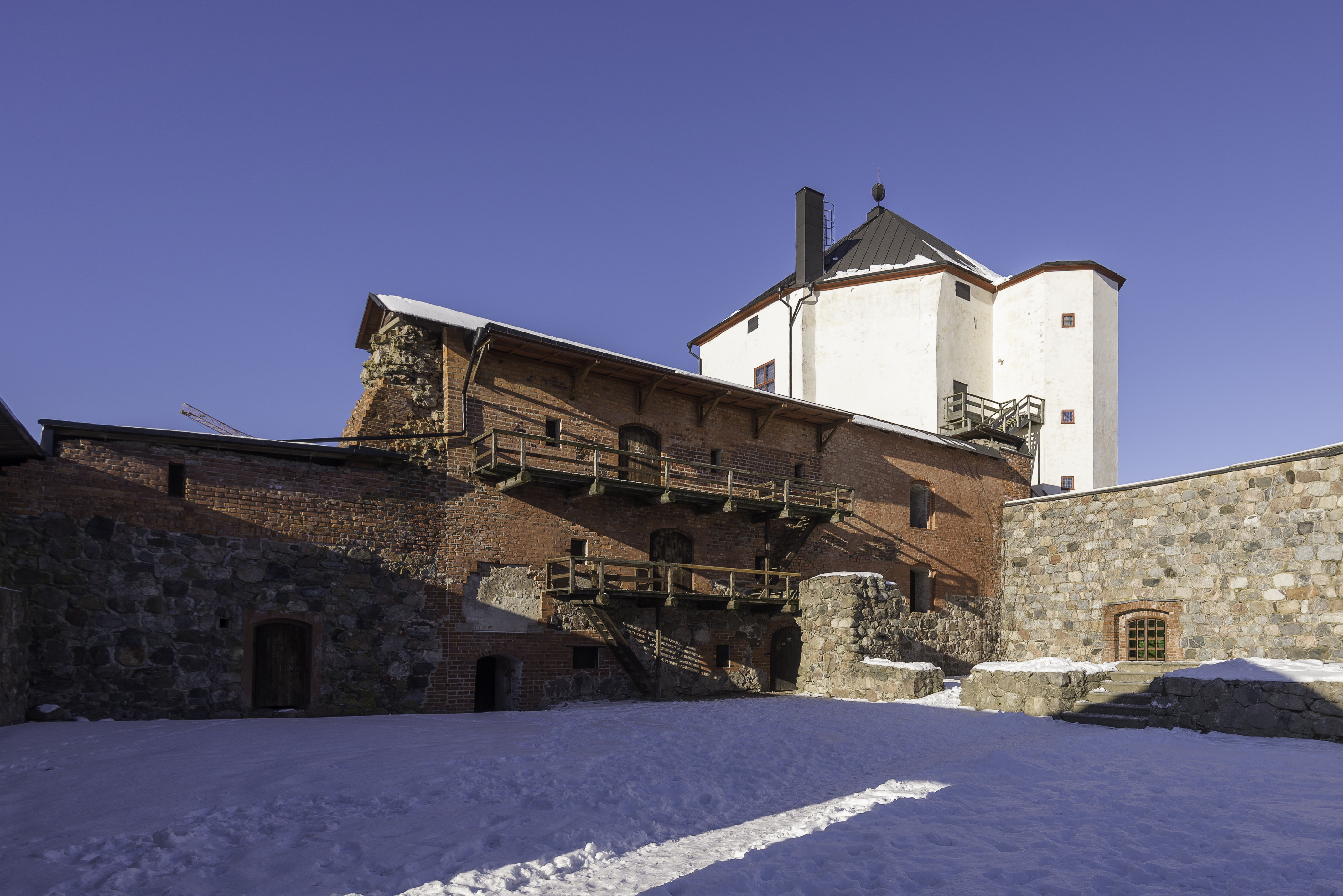 Nyköping Castle (Swedish: Nyköpingshus) in Nyköping, Sweden, is a Mediaeval castle from the Birger Jarl era, partly in ruins. The castle is mostly known for the Nyköping Banquet which took place here in 1317.